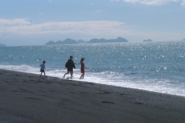 The Vestmann islands seen from the sout coast of Iceland on a warm summer day